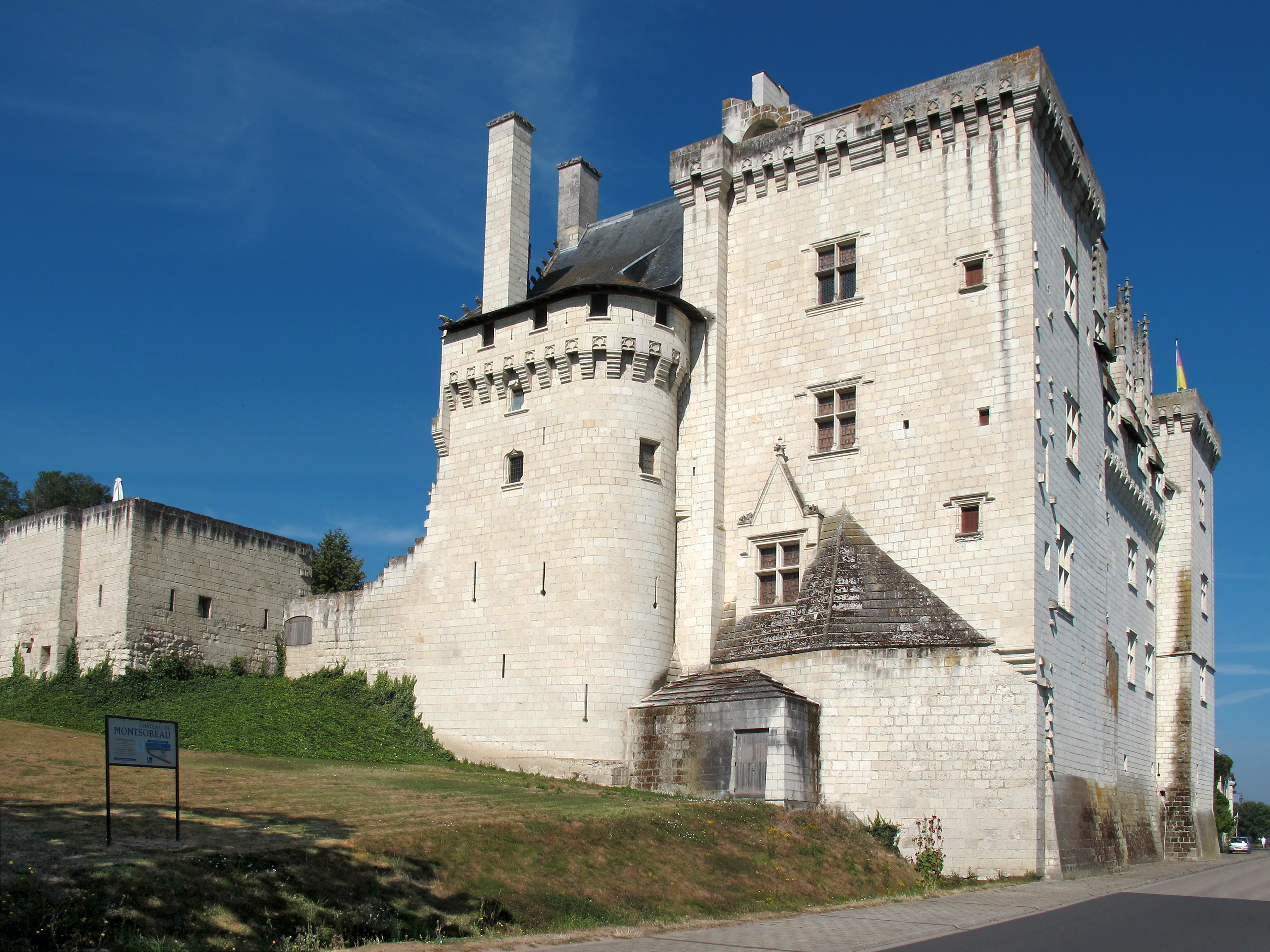 Montsoreau, fifteenth century Alexandre Dumas has made famous the name of Monsoreau in his novel La Dame de Monsoreau (without "t"). The story depicts the love of Diane de Meridor, wife of Charles de Chambes, Earl of Monsoreau, and her lover Louis de Bussy d'Amboise. This building is en partie classé, en partie inscrit au titre des Monuments Historiques. It is indexed in the Base Mérimée, a database of architectural heritage maintained by the French Ministry of Culture, under the references IA49009670 and PA00109211 .